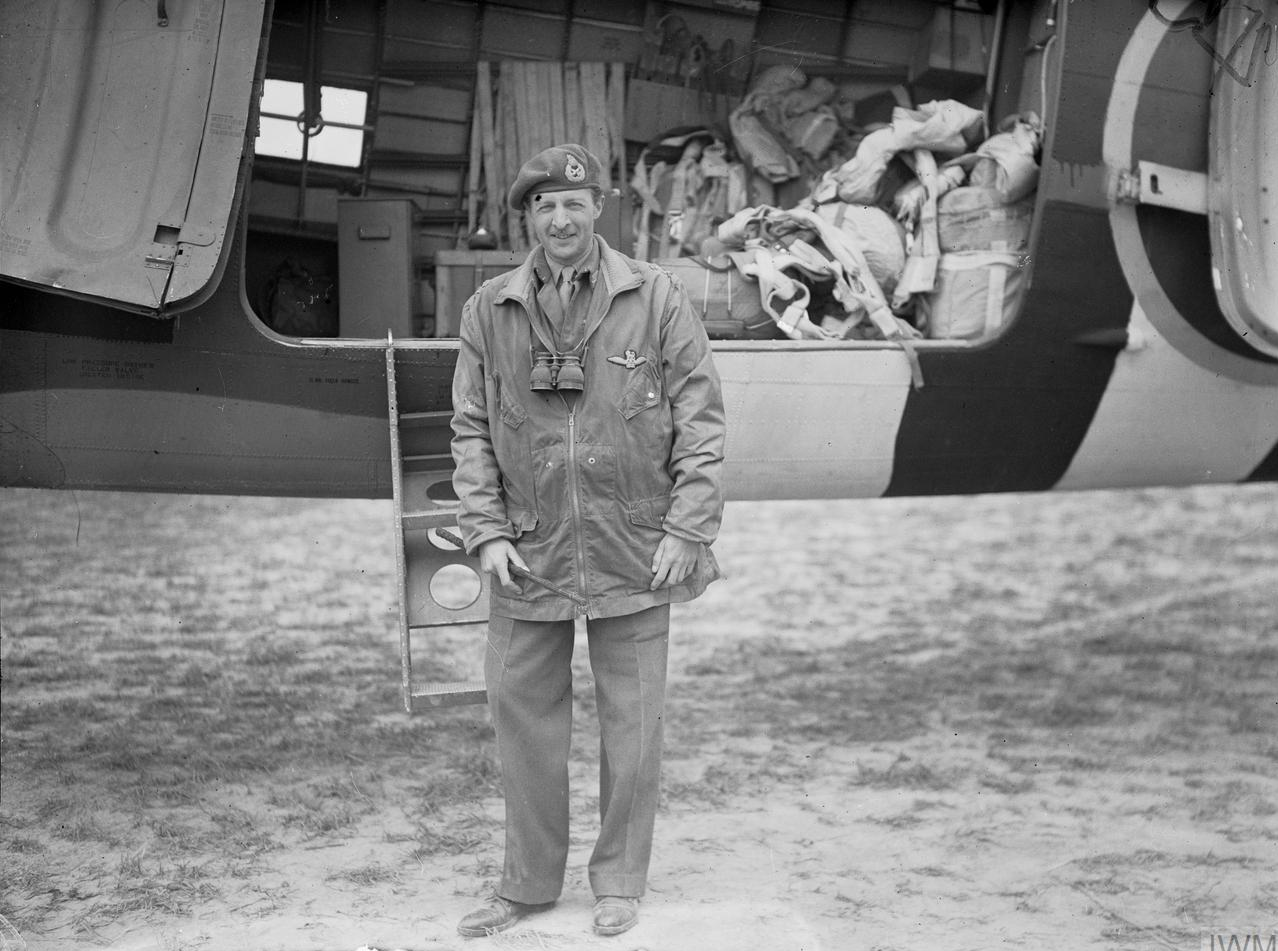 British Generals 1939-1945 Lieutenant General F A M (later Sir Frederick) Browning, commanding the British Airborne Corps, standing by a Douglas Dakota of RAF Transport Command at Lyneham,Wiltshire, after being flown back from the Normandy battlefields.